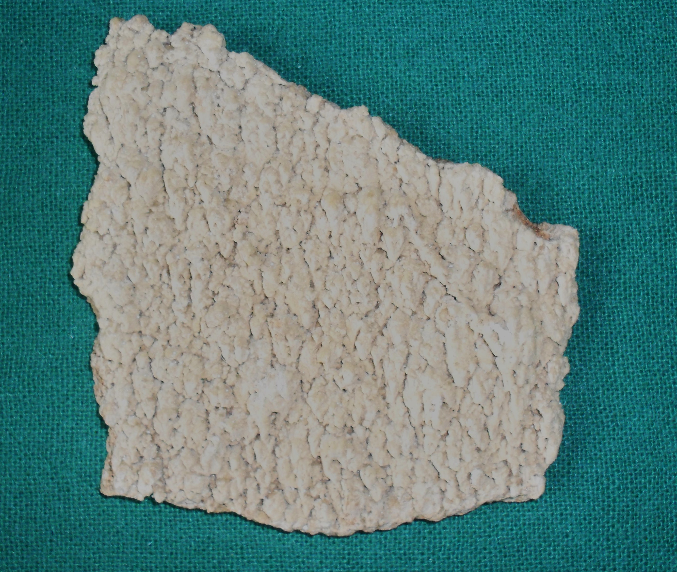 Little sample of dry et compact plate of tartar crystals (Potassium bitartrate) with common impureties (coming from white wine during his maturation), called in french "tartre de vin" , "tartre des tonneaux", "tartre des barriques". Size : 10 cm x 10 cm x 12 cm X 4 cm with thickness around 1 cm. It's the more brilliant and cream color, sometimes yellowish, side lookink inside the barrel. Before the cleaning of the empty barrel, the winegrower breaks the dry and solid layer of tartar. Collection André Kloecklé, provenant du nettoyage annuel des grands fûts en bois de la maison Greiner-Schleret à Mittelwihr Haut-Rhin (68 Alsace). The opposite side, formerly bonded to the wood of the barrel, is seen in File:Tartre de vin face tonneau.jpg. Here it is a white wine as Gewurztraminer. Noticed the greyish hue, the more reddish or brownished color for "red wines" as "Pinot noir"